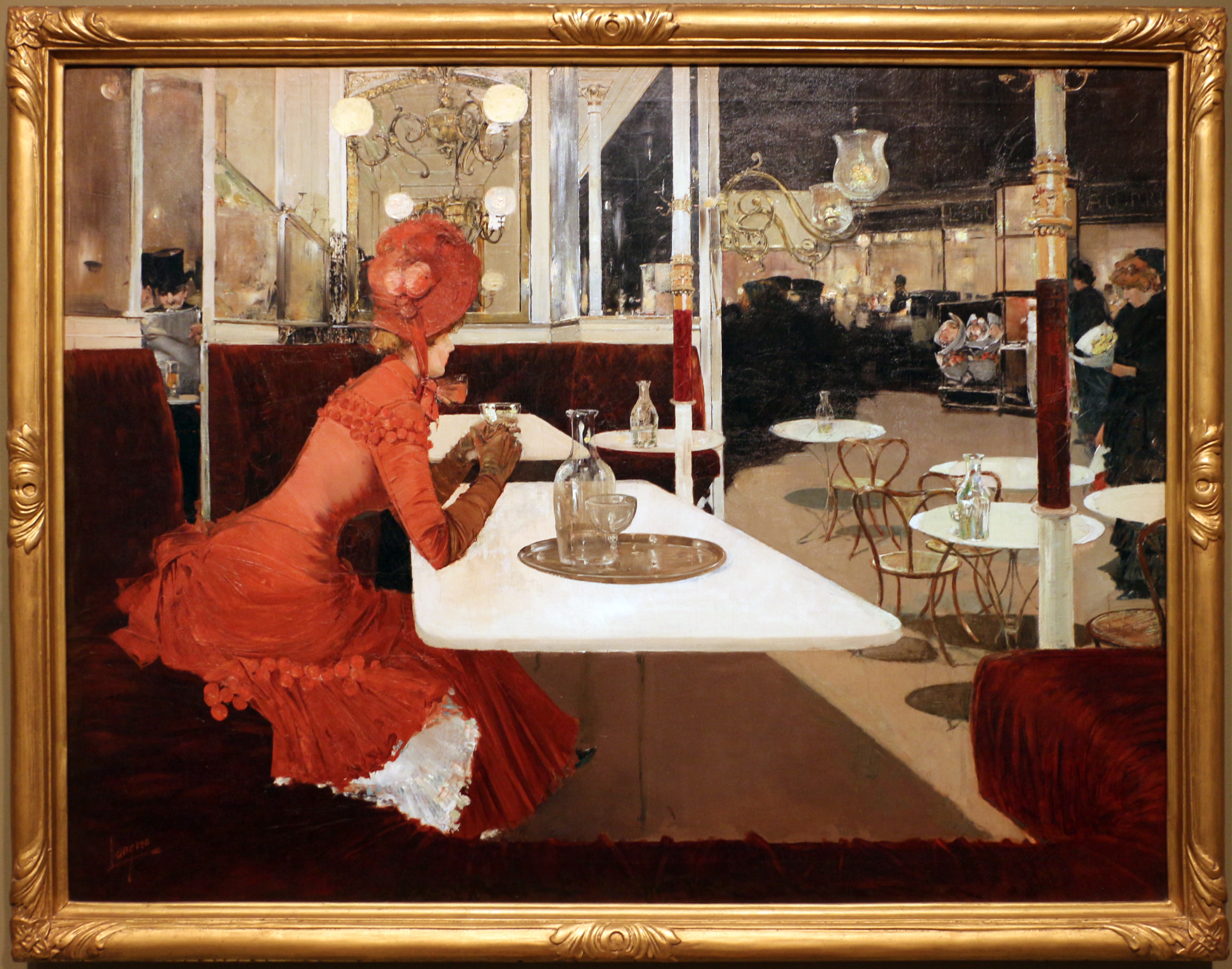 American paintings in the Art Institute of Chicago